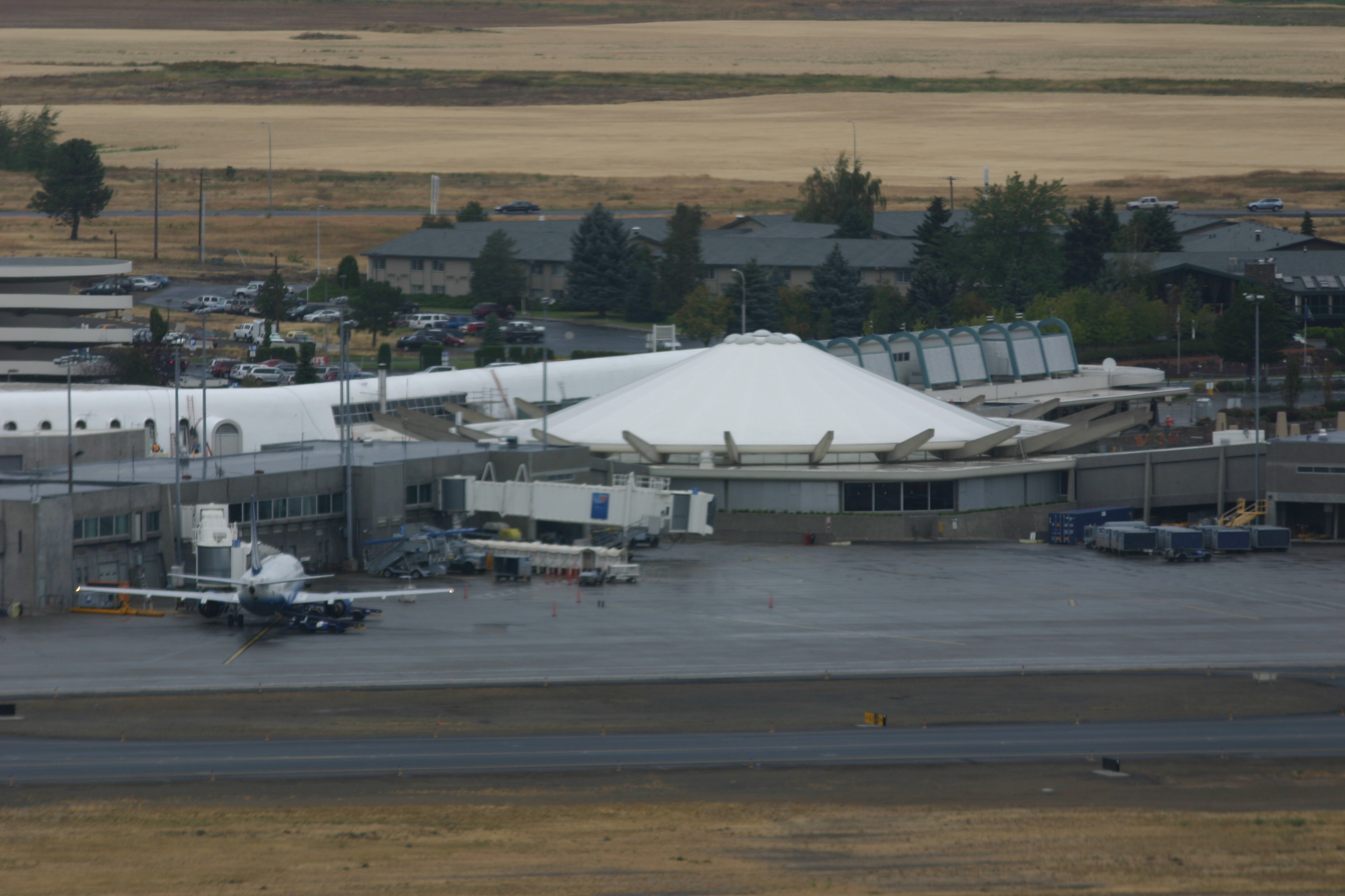 This picture was taken from the Spokane International Airport Tower that was put into use around August 2007. The piture is of the Terminal Area (Commercial Airlines Side) Across from XN Air, an FBO on the General Aviation side.